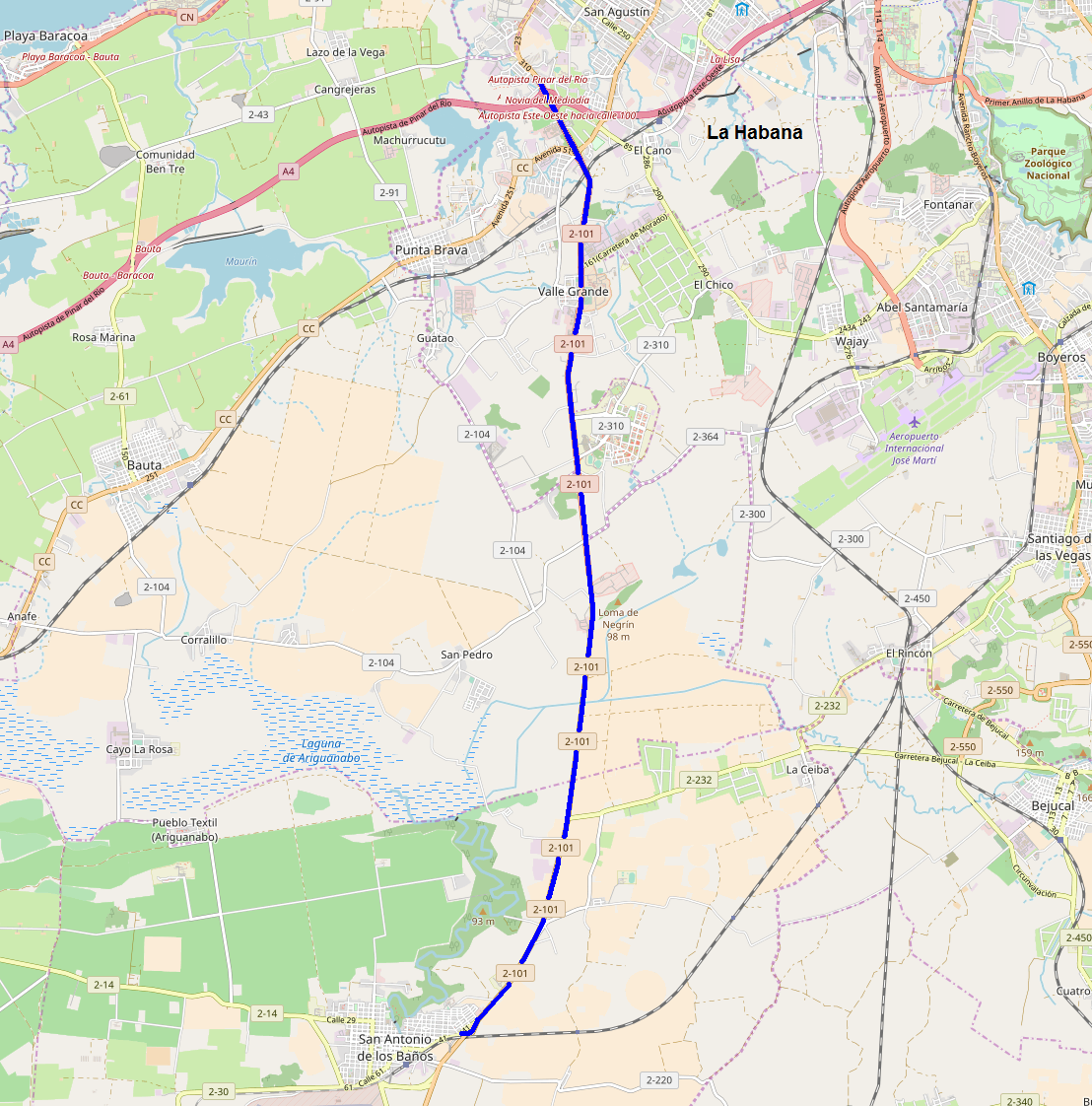 This map may be incomplete, and may contain errors. Don't rely solely on it for navigation.